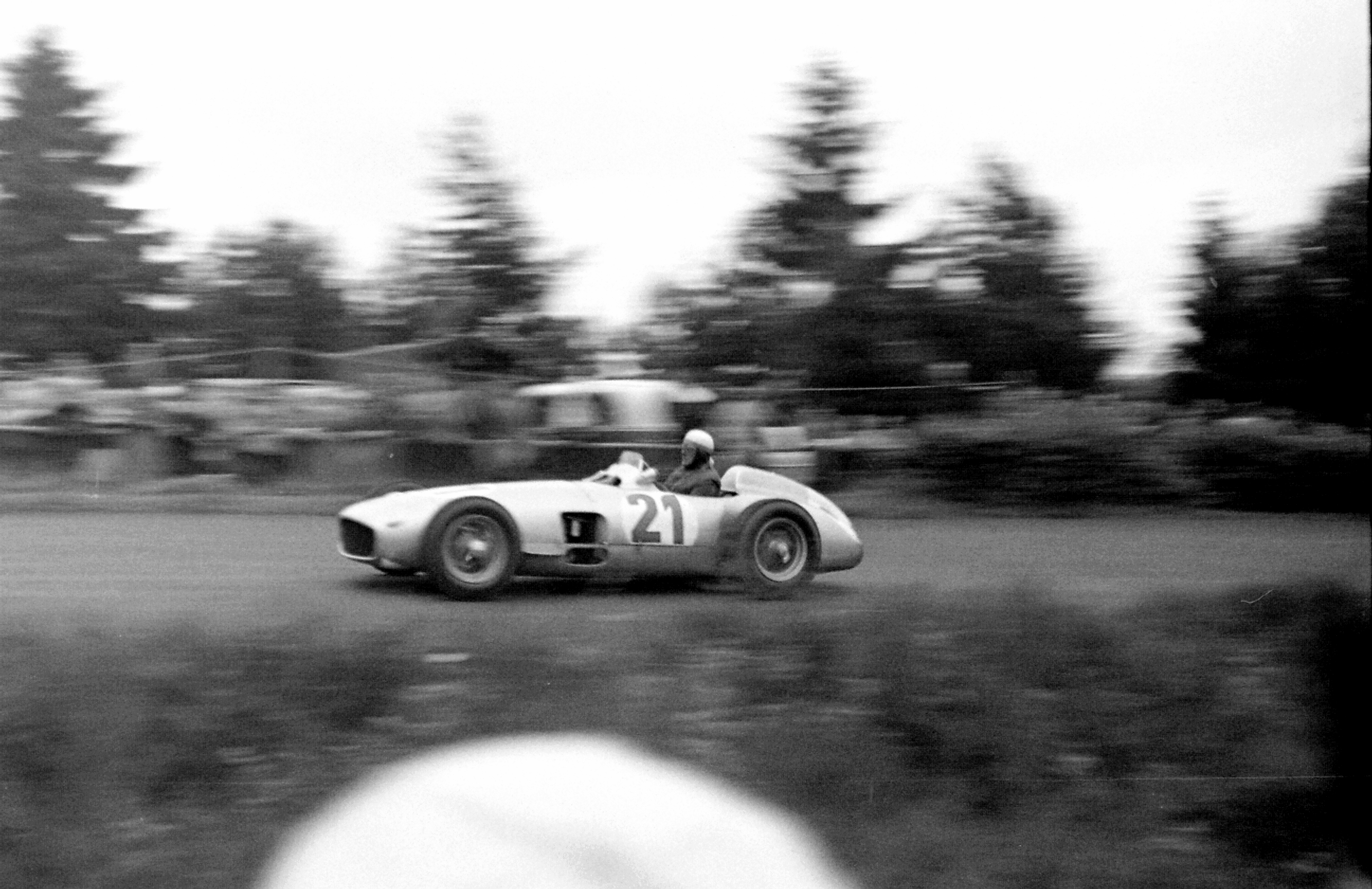 Grosser Preis von Europa, Nuerburgring Germany, August 1st, 1954, racing driver: Hermann Lang, Mercedes-Benz W196 Monoposto